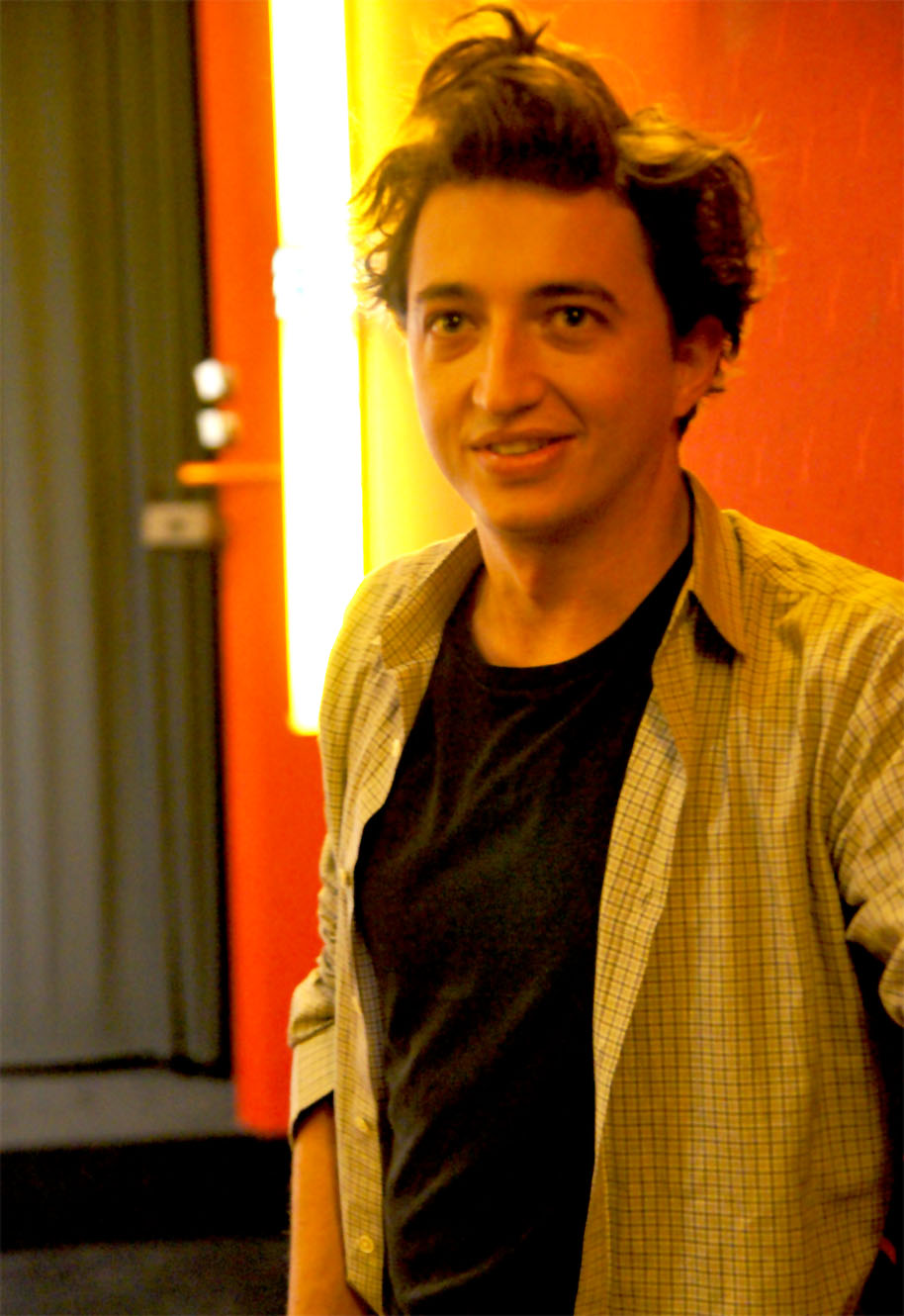 American director Benh Zeitlin presenting his new film Beasts of the Southern Wild at the Fantasy Film Festival in Berlin (Cinemaxx, Potsdamer Platz)